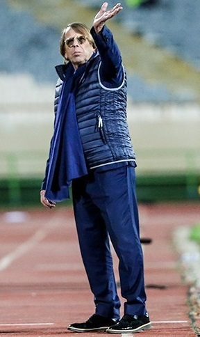 Claude Le Roy